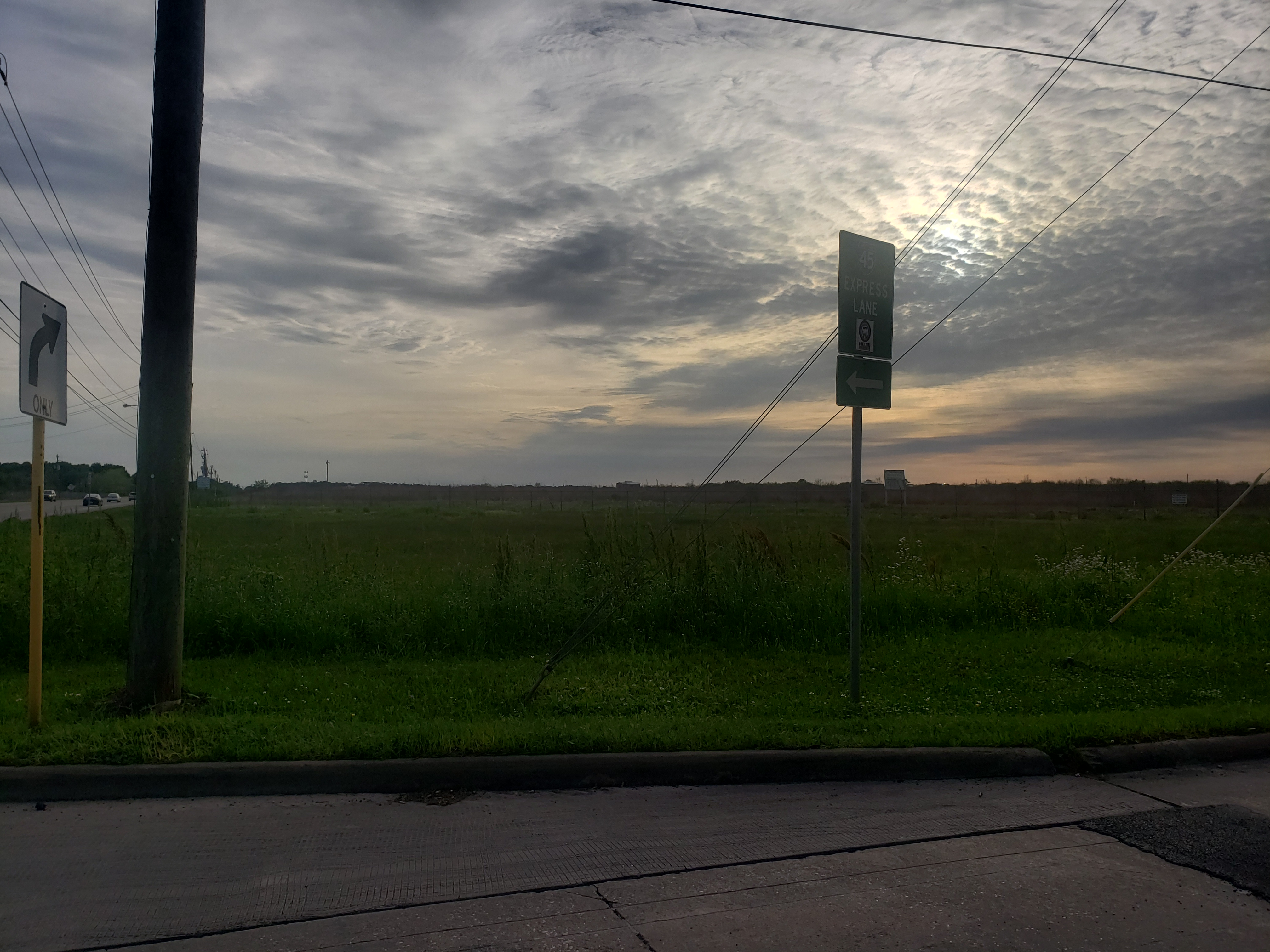 Brio Superfund site surrounded with fencing, captured on Beamer Road near the intersection with Dixie Farm Road, Harris County, Texas.